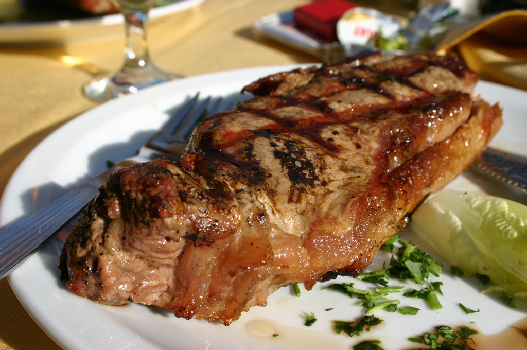 500px provided description: So much yum. [#argentina ,#steak]